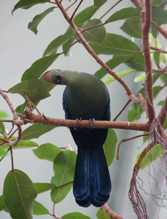 Tauraco fischeri